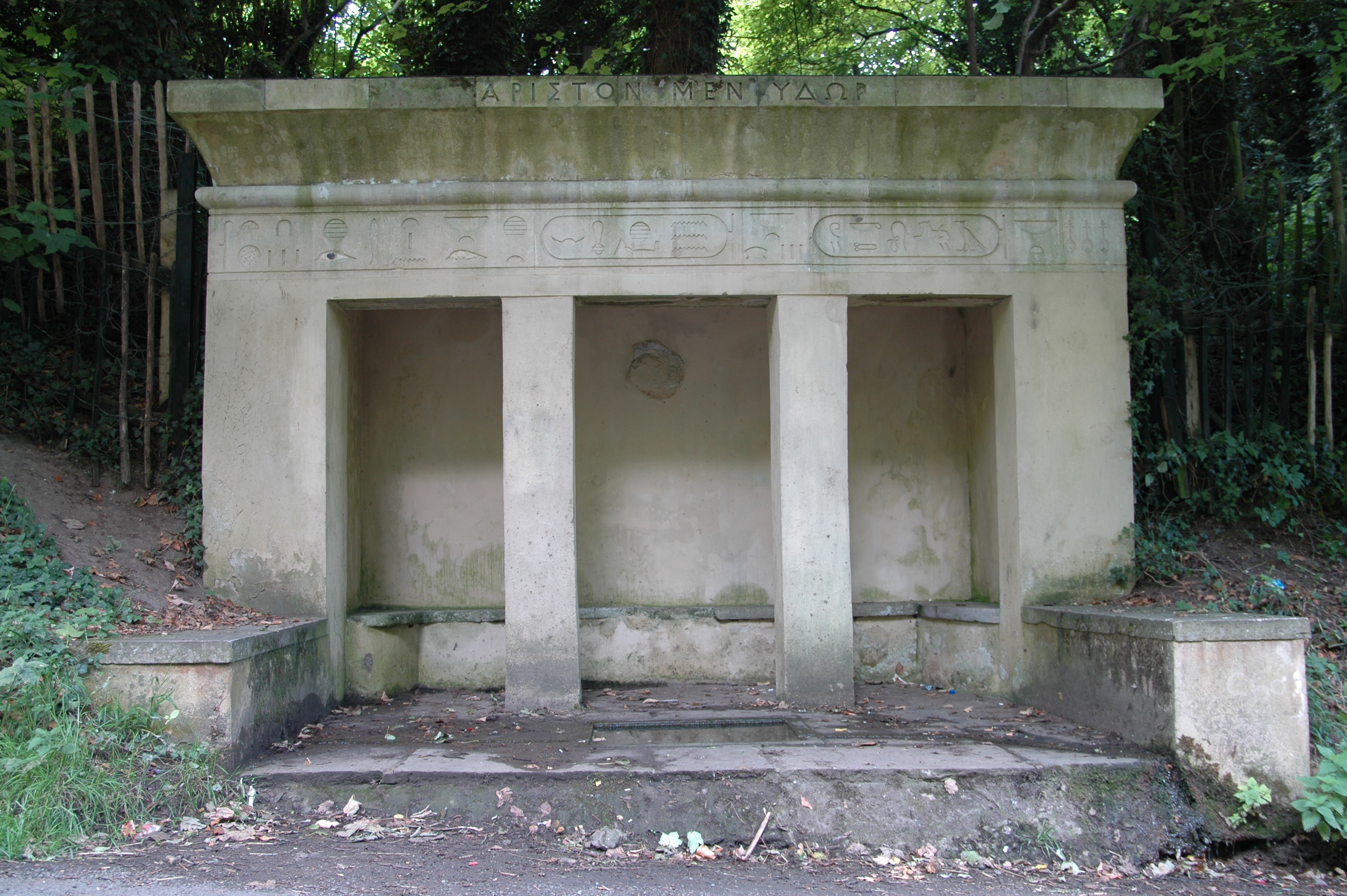 The Egyptian Spring on Lower Hartwell in Buckinghamshire